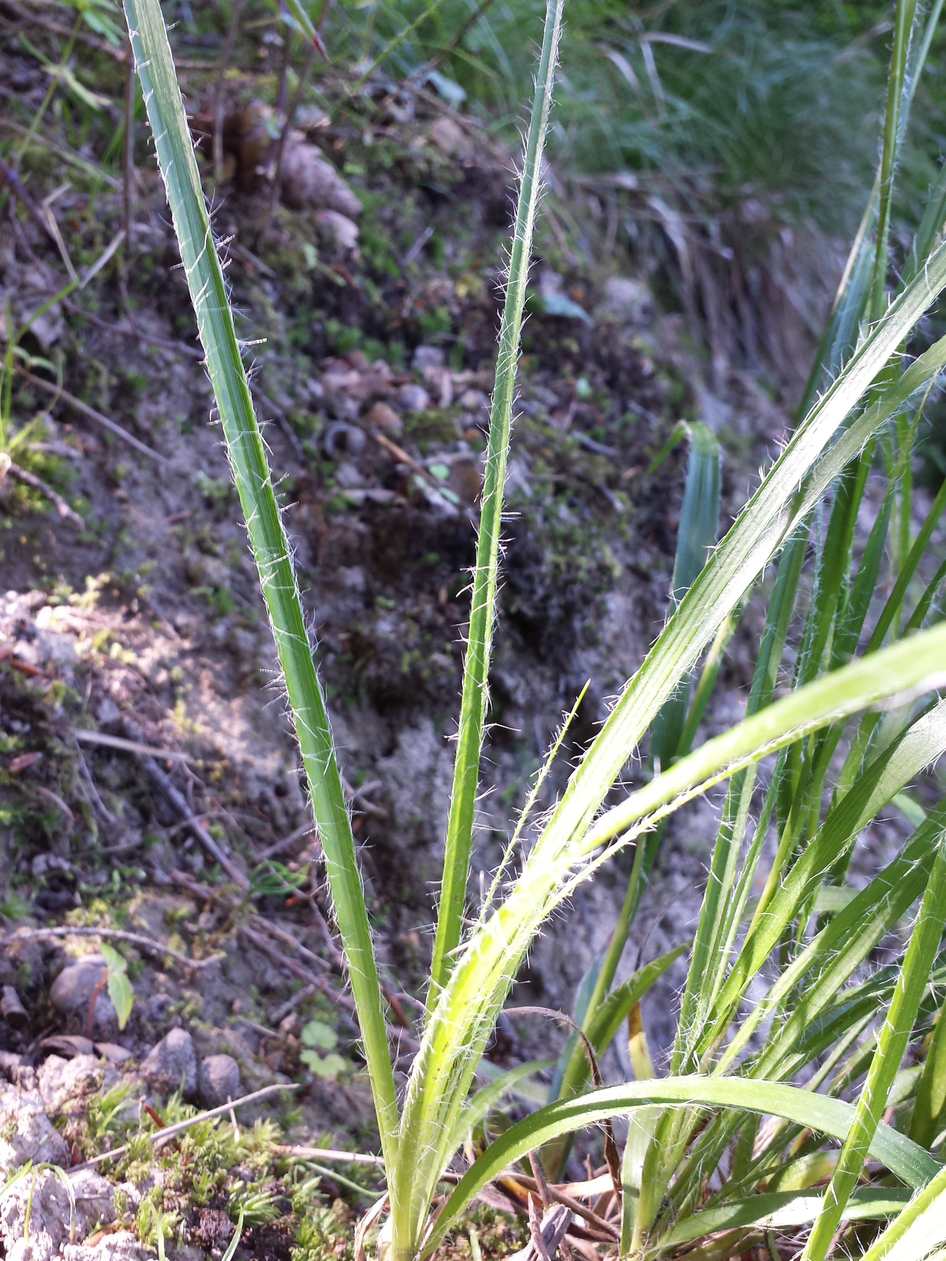 Leaves Taxonym: Luzula luzuloides var. luzuloides ss Fischer et al. EfÖLS 2008 ISBN 978-3-85474-187-9 Location: Kreuttal, district Mistelbach, Lower Austria - ca. 200 m a.s.l. Habitat: dedicious forest